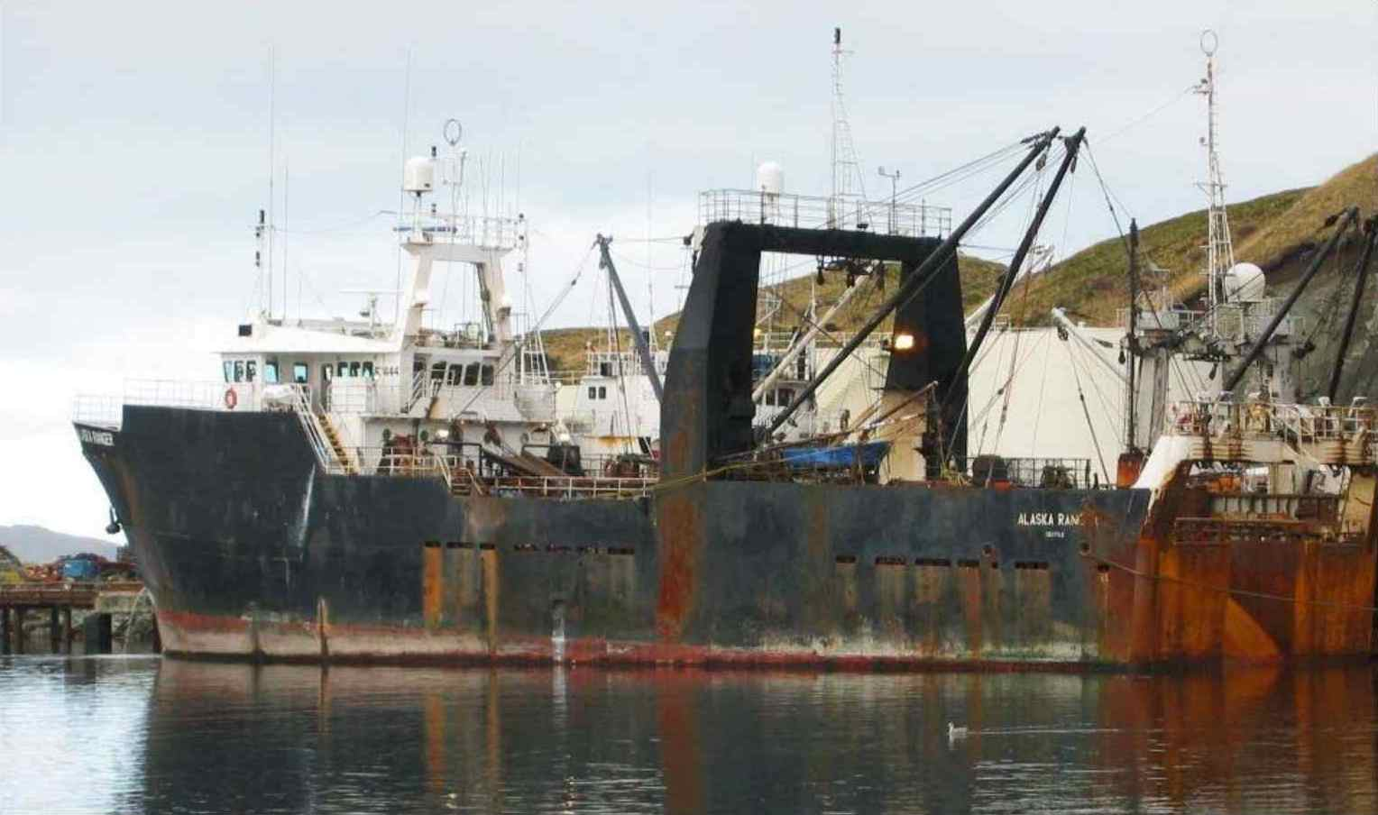 Former fishing factory ship FV Alaska Ranger